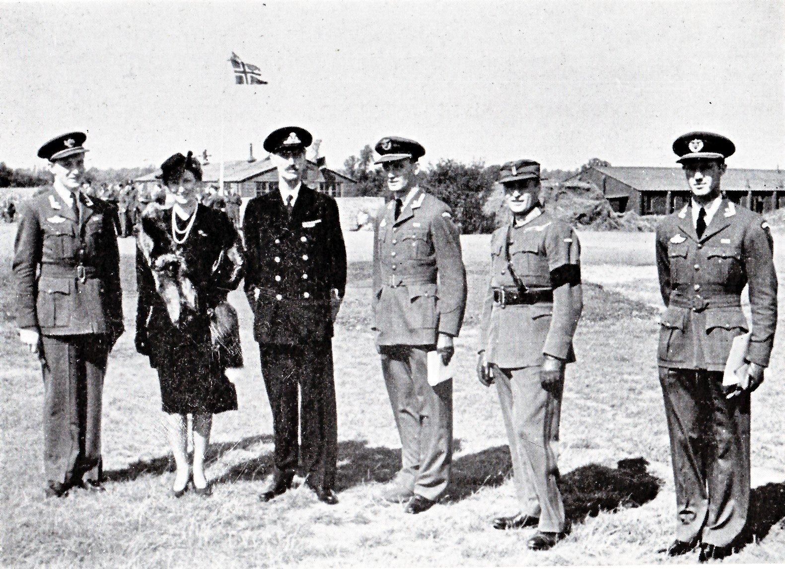 Three Norwegian pilots decorated with the War Cross with Sword following the Dieppe Raid. Pilots seen with King Haakon VII of Norway, Crown Prince Olav, and Crown Princess Märtha. Left to right: Helge Mehre, Crown Princess Märtha, King Haakon, Wilhelm Mohr, Crown Prince Olav, and Kaj Birksted. RAF North Weald.